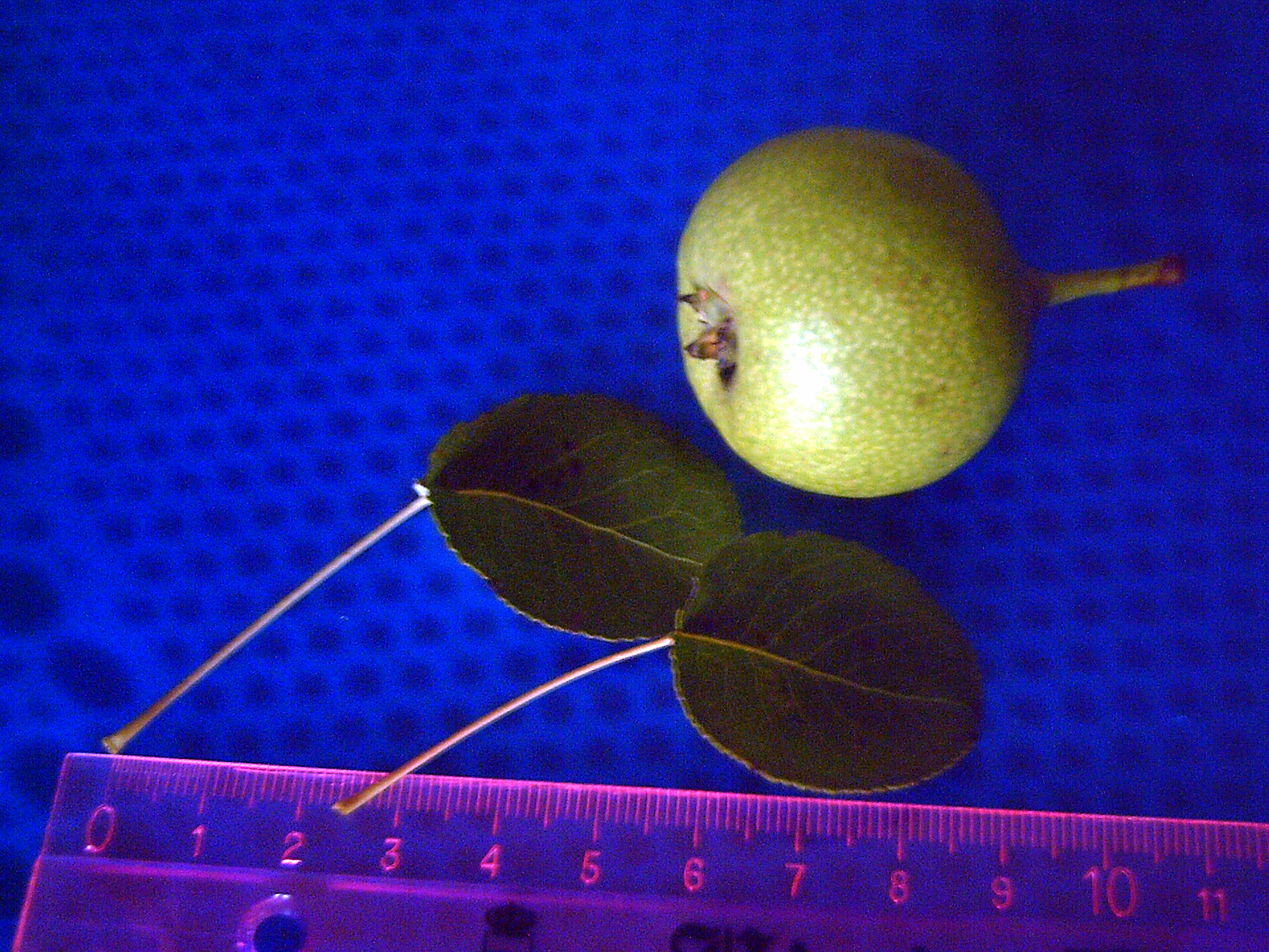 Pyrus bourgaeana Fruit and Leaves, in Solana del Pino, Spain